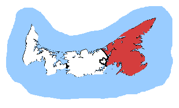 Map of the Cardigan electoral district. Based on Earl Andrew's maps, created by SimonP.